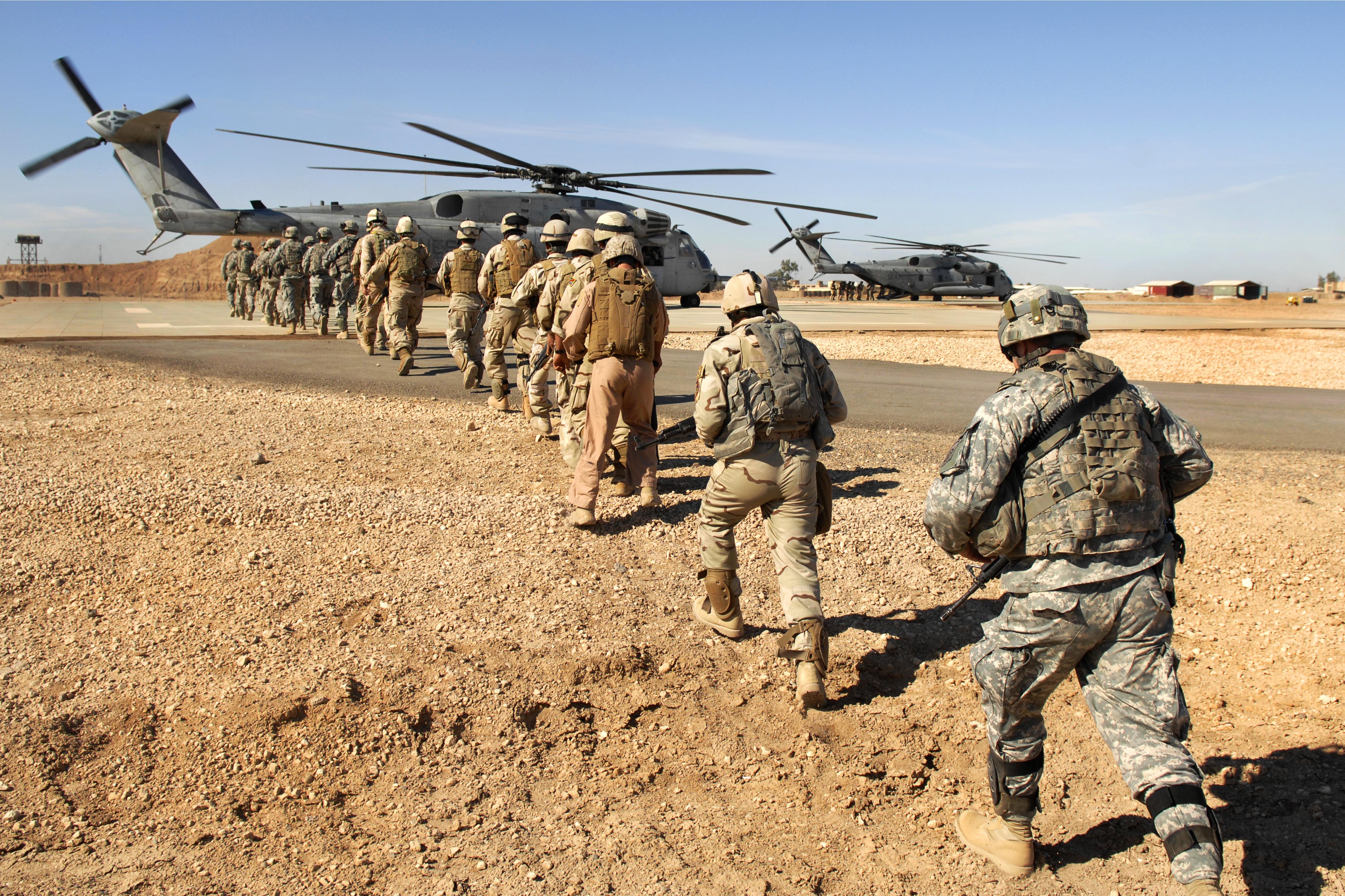 U.S. Army and Iraqi army soldiers board a Marine Corps CH-53 Super Stallion helicopter during a static loading exercise being conducted to prepare for upcoming missions on Camp Ramadi, Iraq, Nov. 15, 2009. The U.S. Soldiers are assigned to the 82nd Airborne Division's 2nd Battalion, 504th Parachute Infantry Regiment, 1st Brigade Combat Team. U.S. Air Force photo by Staff Sgt. Daniel St. Pierre See more at